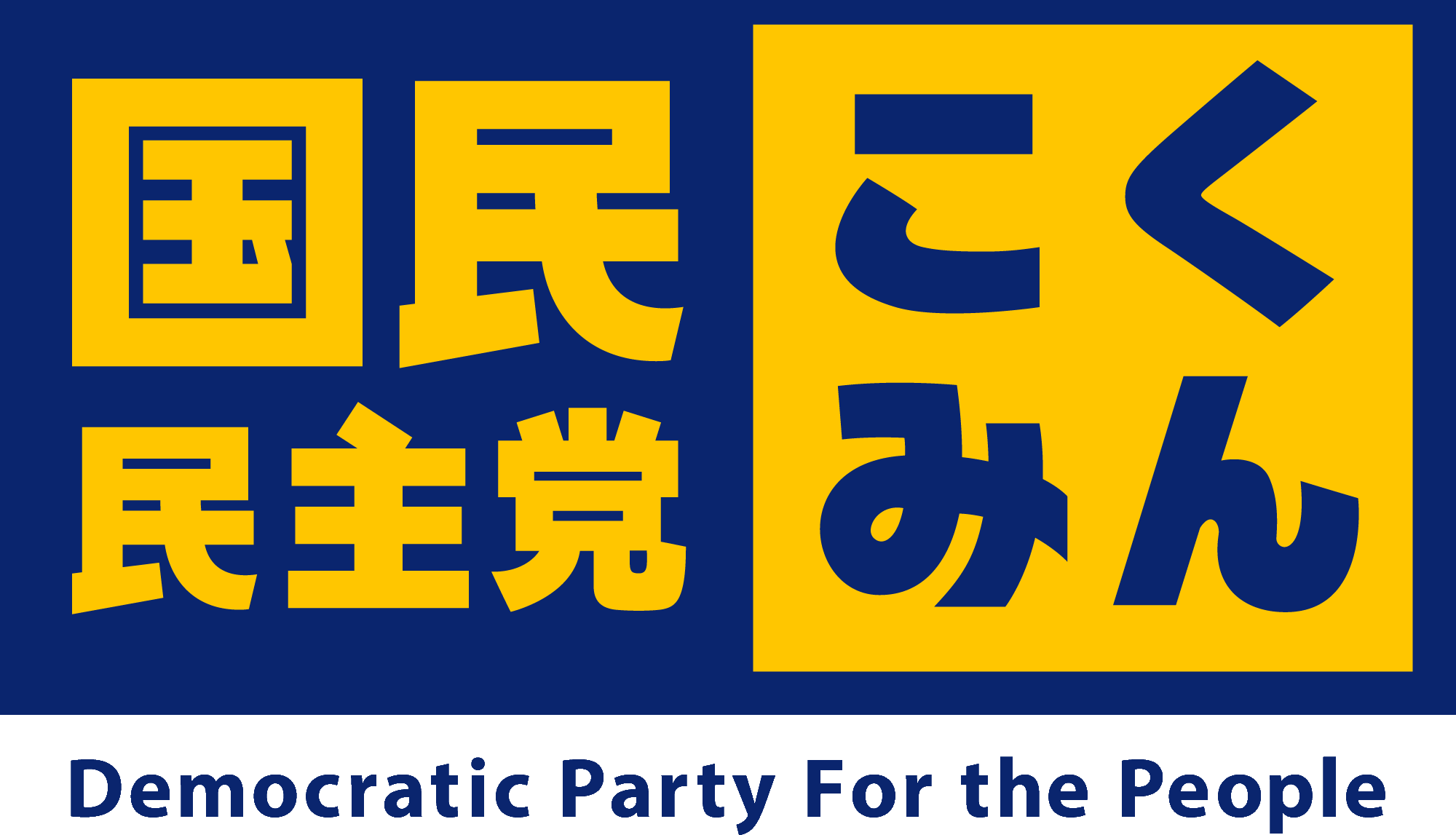 Logo of the Democratic Party For the People.